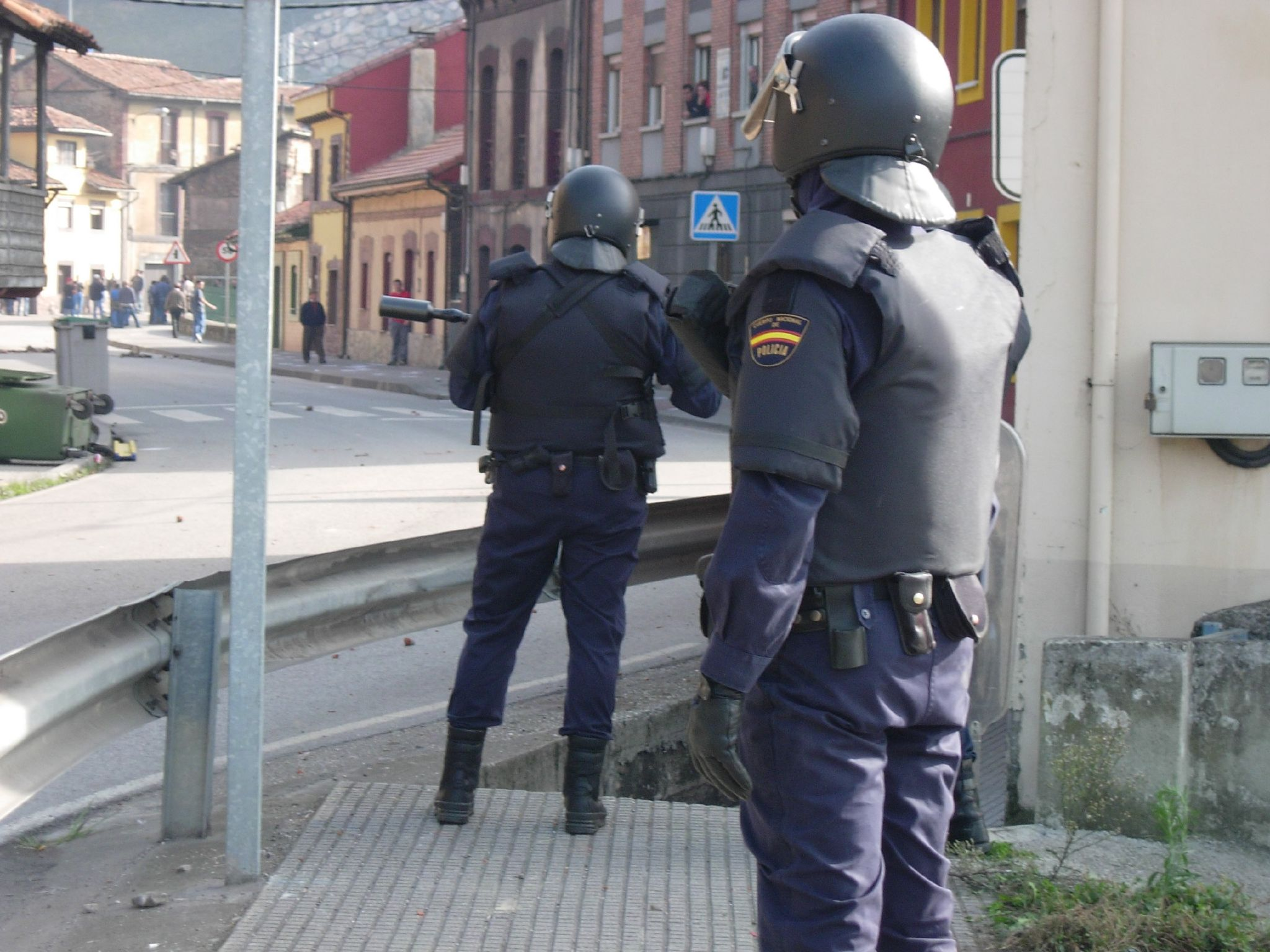 Spanish anti-riot agents watching strikers.